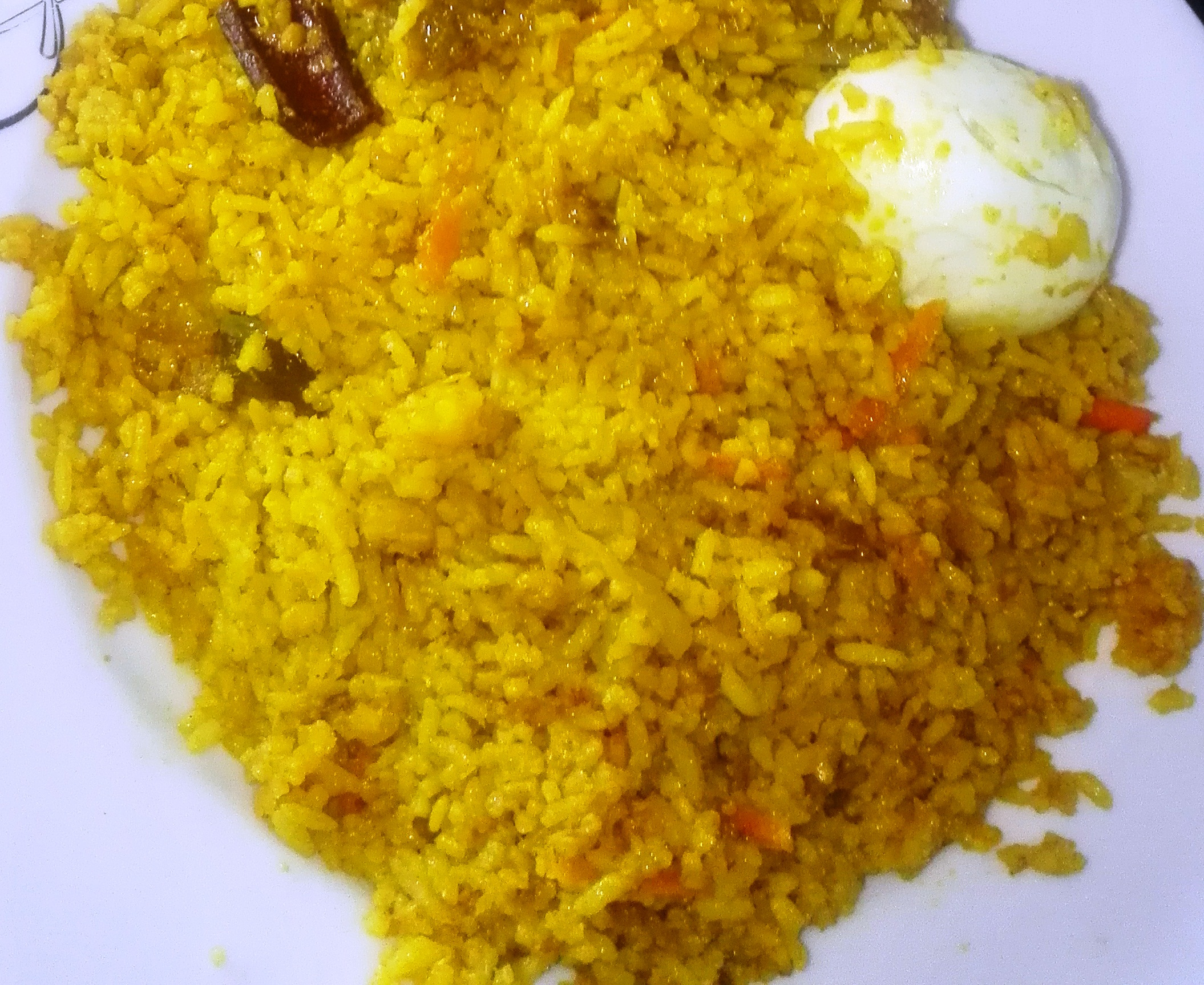 Khichuri, a bangali dish